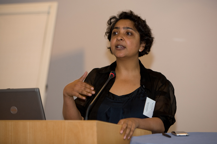 Kanchan Chandra, Associate Professor, New York University Presentation: Ethnic cleavages structures, permanent exclusion and democratic stability